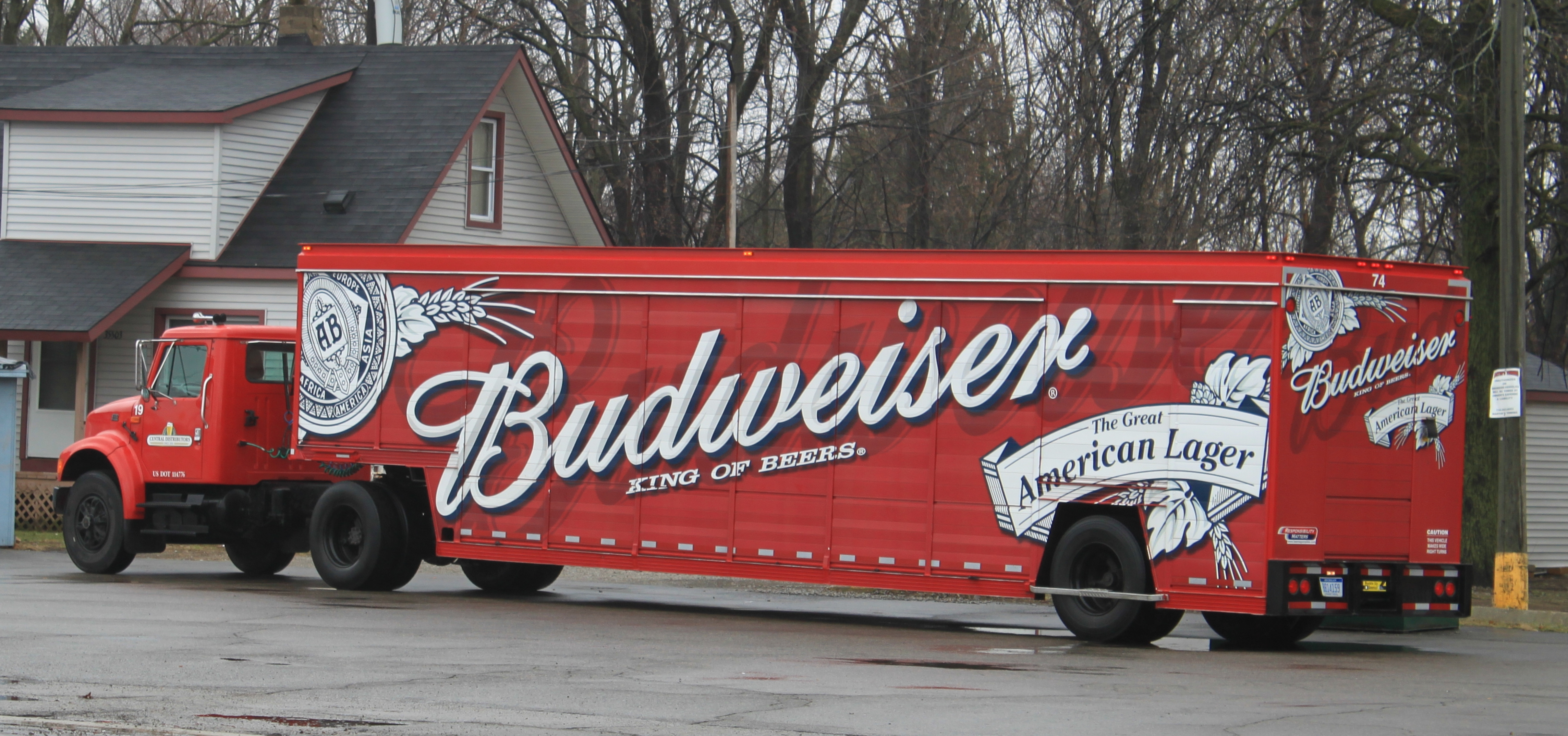 Budweiser beverage delivery truck, Wayne & Ecorse Roads, Romulus, Michigan